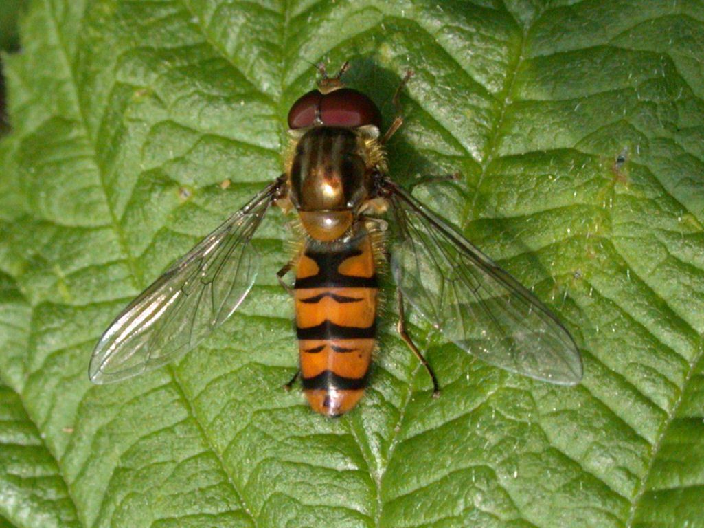 Episyrphus balteatus (Diptera : Syrphidae) Cambridge, England